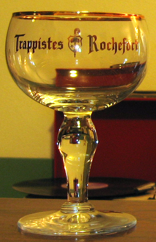 Beer Glass of Trappiste Rocheforte. Belgian beer.